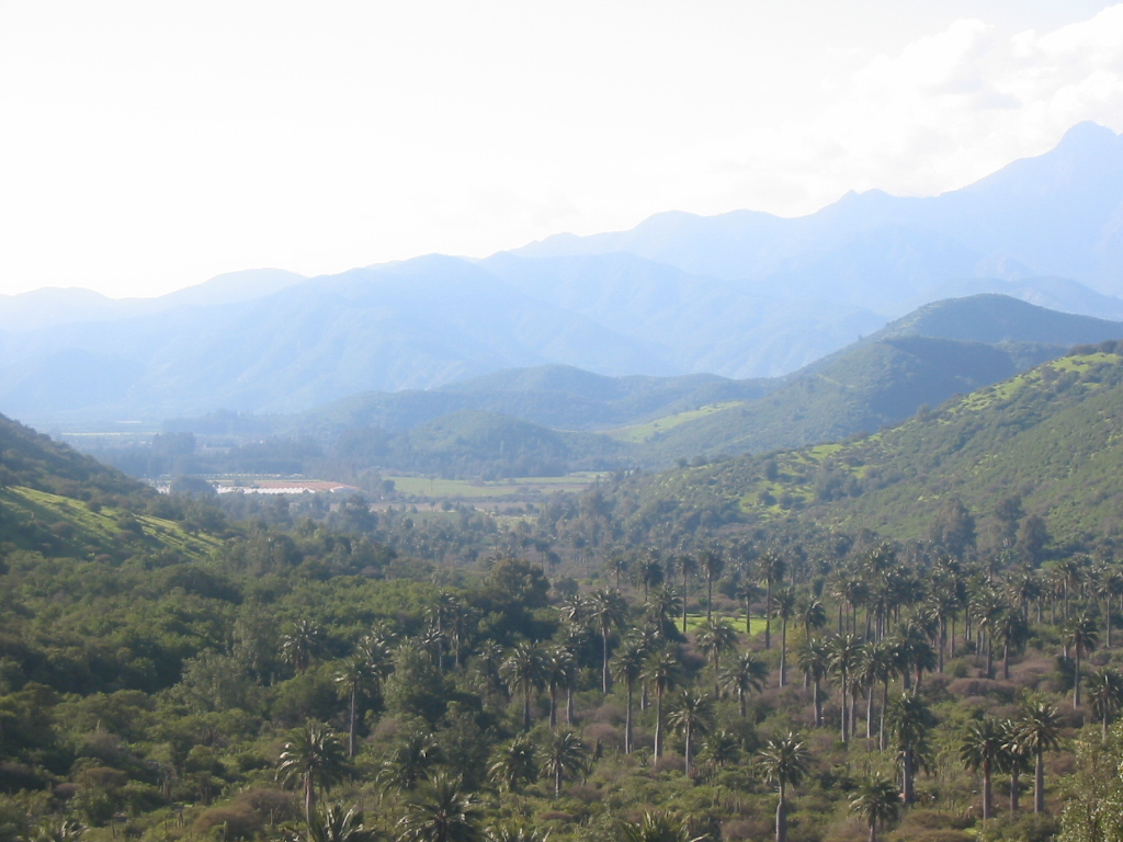 Endemic Chilean Wine Palm (Jubaea chilensis) trees in La Campana National Park, Chile. With the Cordillera de la Costa (Chilean Coast Range) in backround.